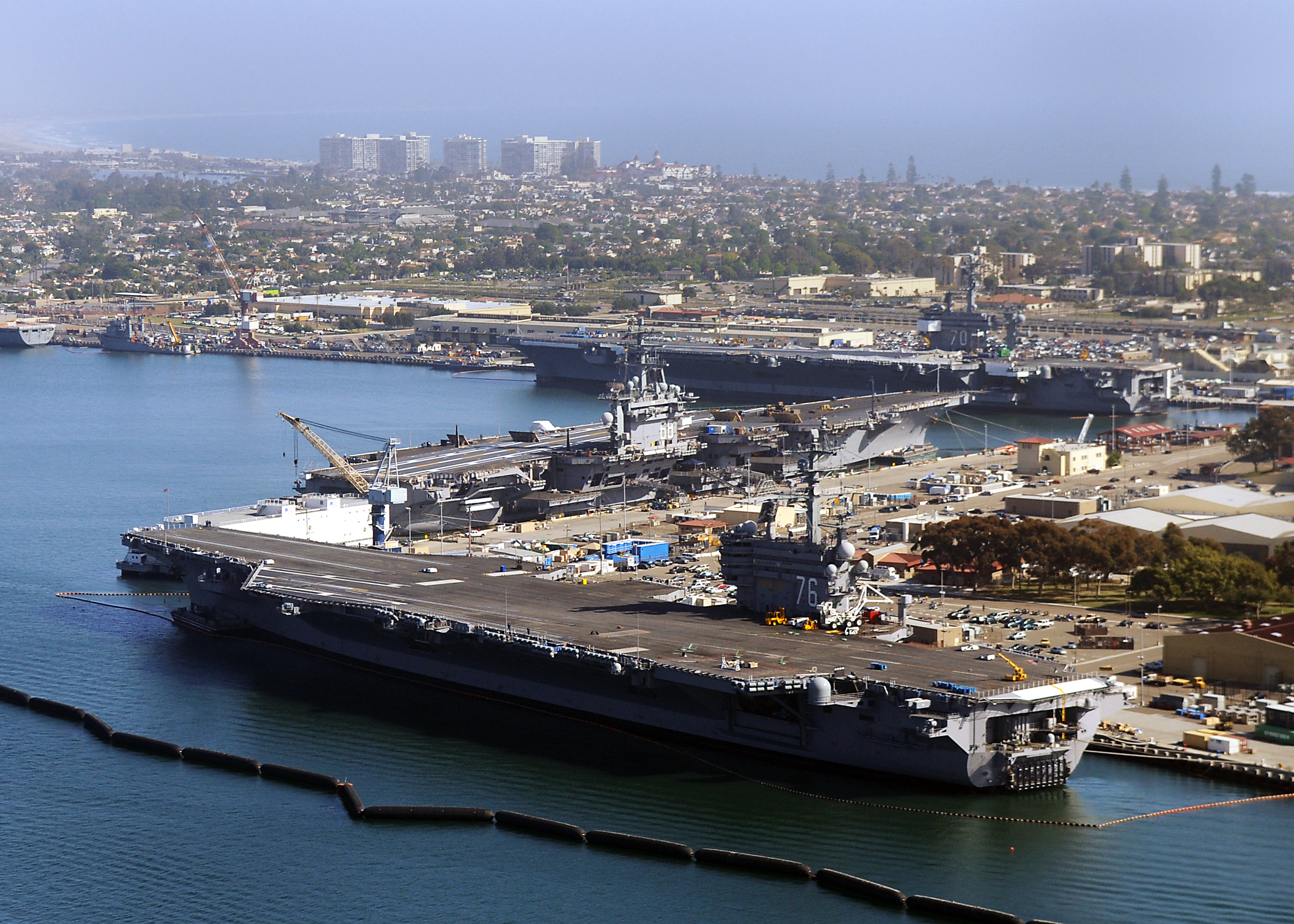 SAN DIEGO (May 6, 2010) The aircraft carriers USS Ronald Reagan (CVN 76), USS Nimitz (CVN 68) and USS Carl Vinson (CVN 70) are pierside at Naval Air Station North Island. (U.S. Navy photo by Mass Communication Specialist 1st Class David Mercil/Released)